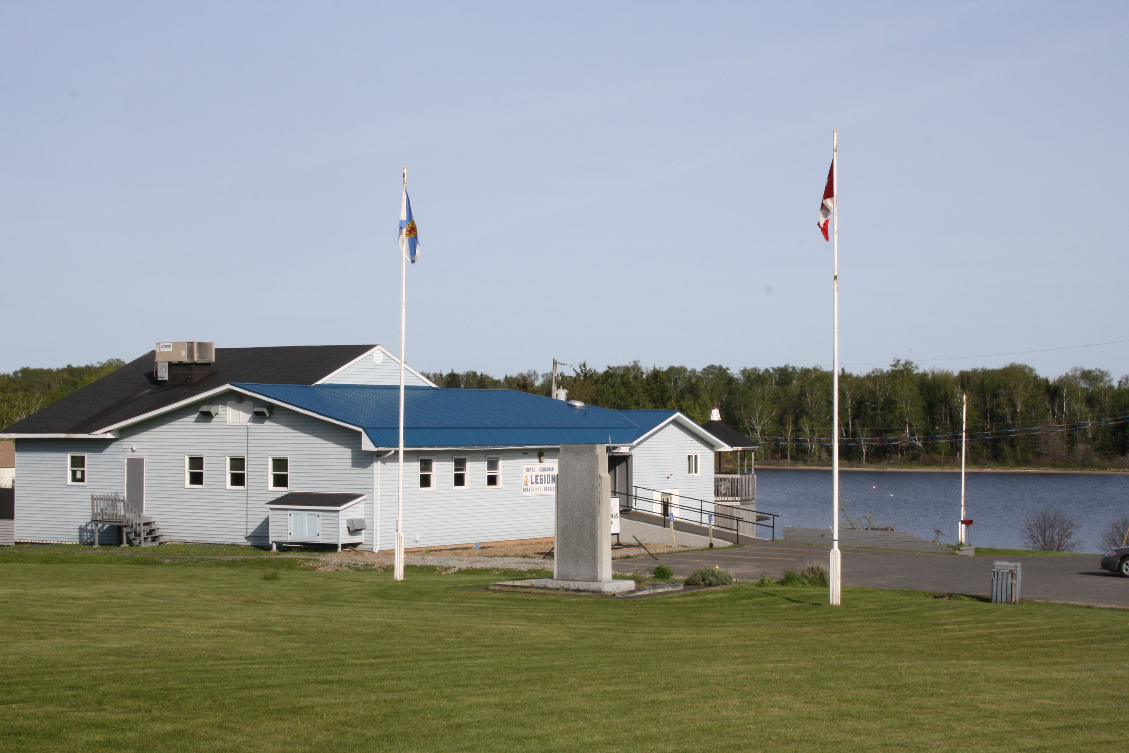 Royal Canadian Legion Branch 53, located in Baddeck, Nova Scotia.